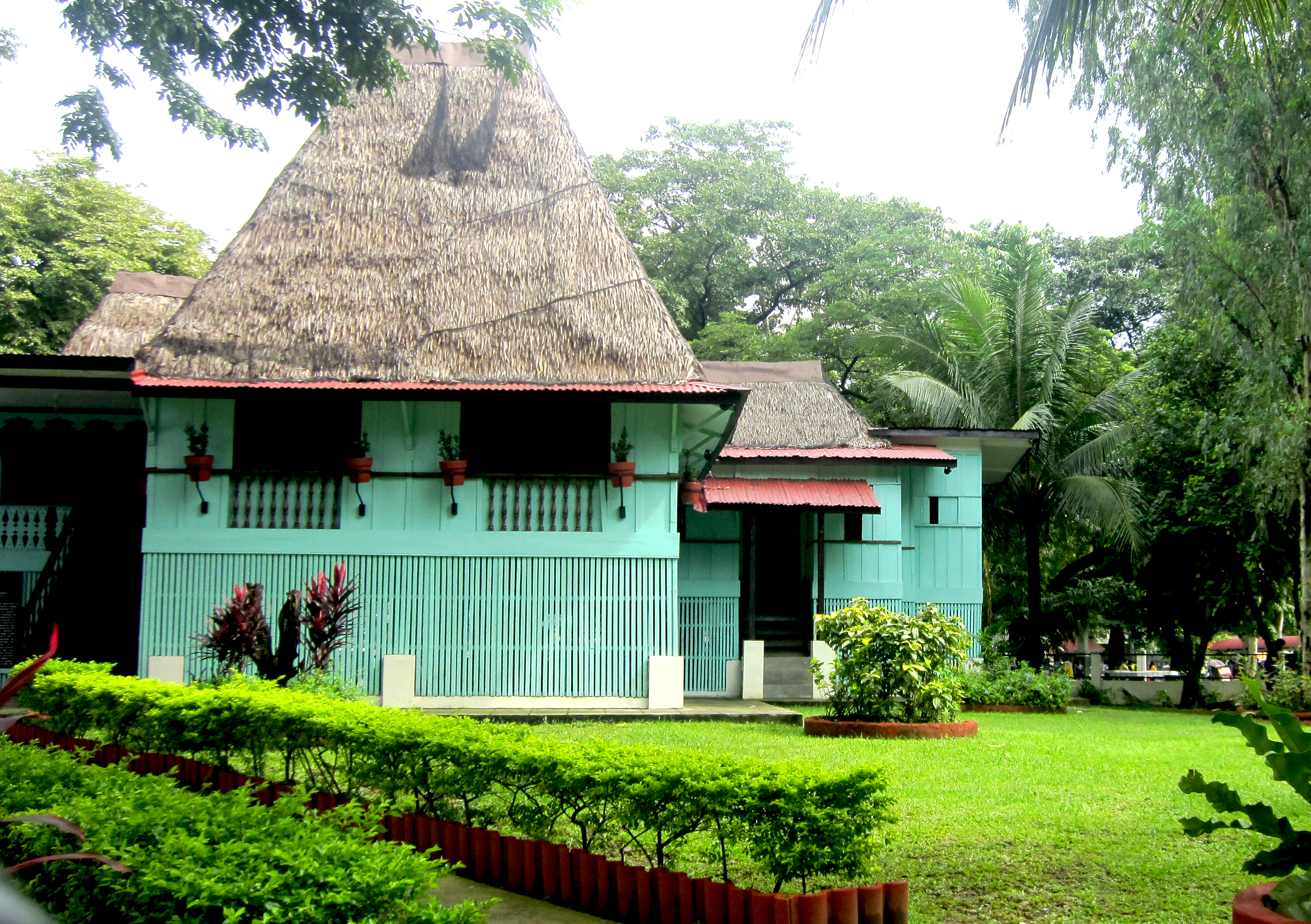 The Mabini Shrine. This house of Apolinario Mabini was originally located in Nagtahan, Manila. It was transferred to the Polytechnic University of the Philippines Mabini Campus through the efforts of the Metropolitan Manila Development Authority.